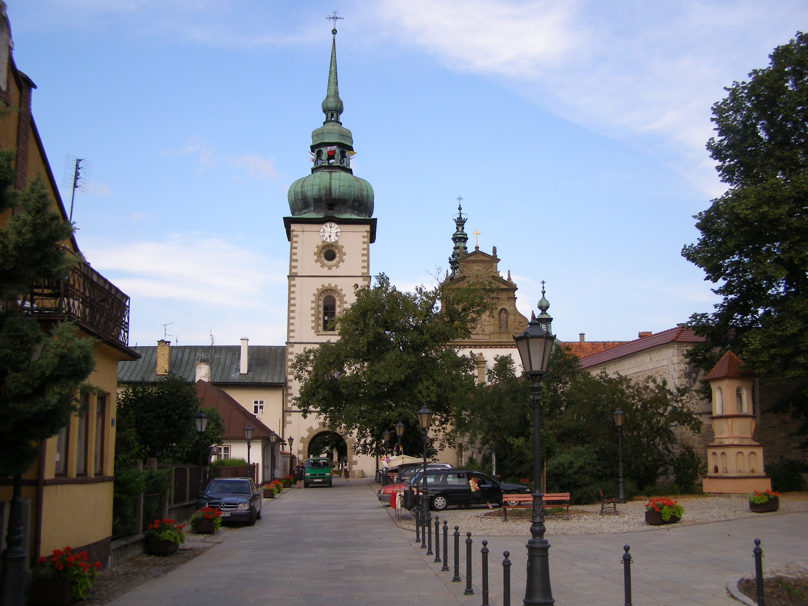 Stary Sącz - Poor Clare Nuns monastery